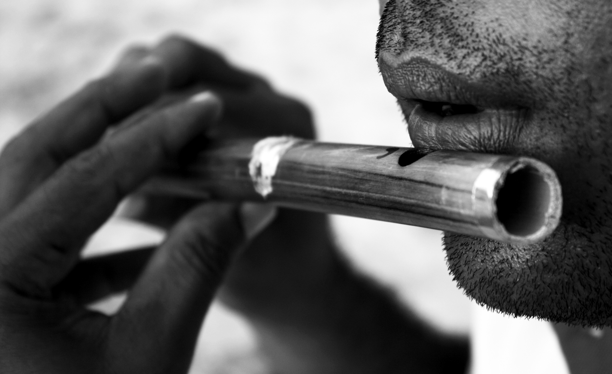 A man playing flute (which is made by bamboo).